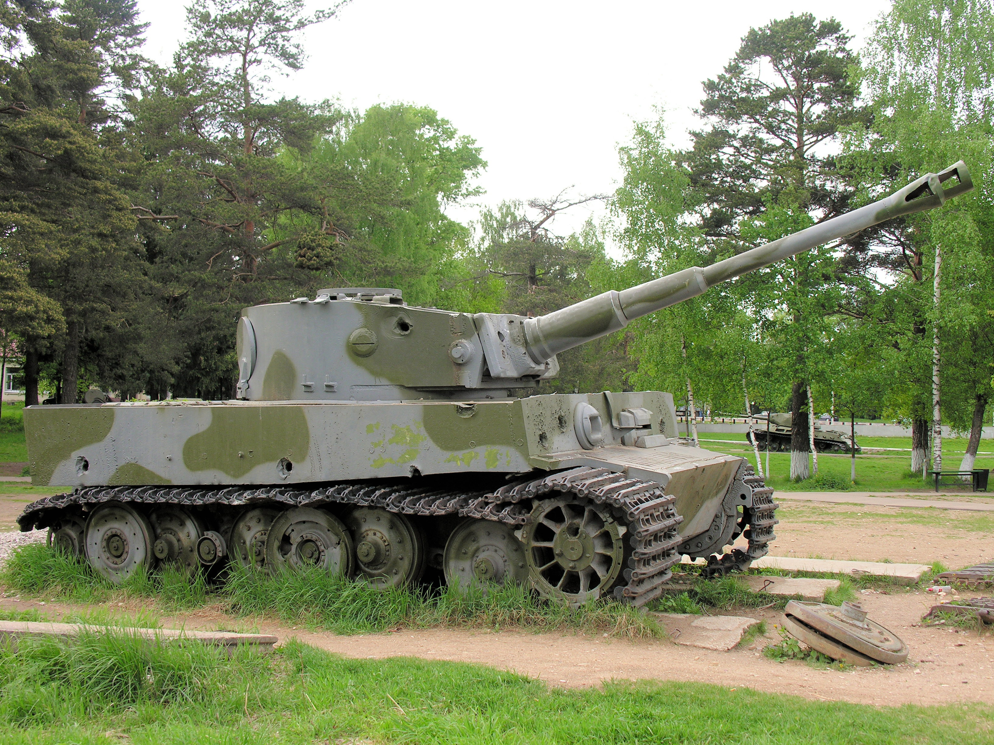 Pz.Kpfw. Vl Ausf.H («Tiger I») in Lenino-Snegiri Military Historical Museum, Russia.